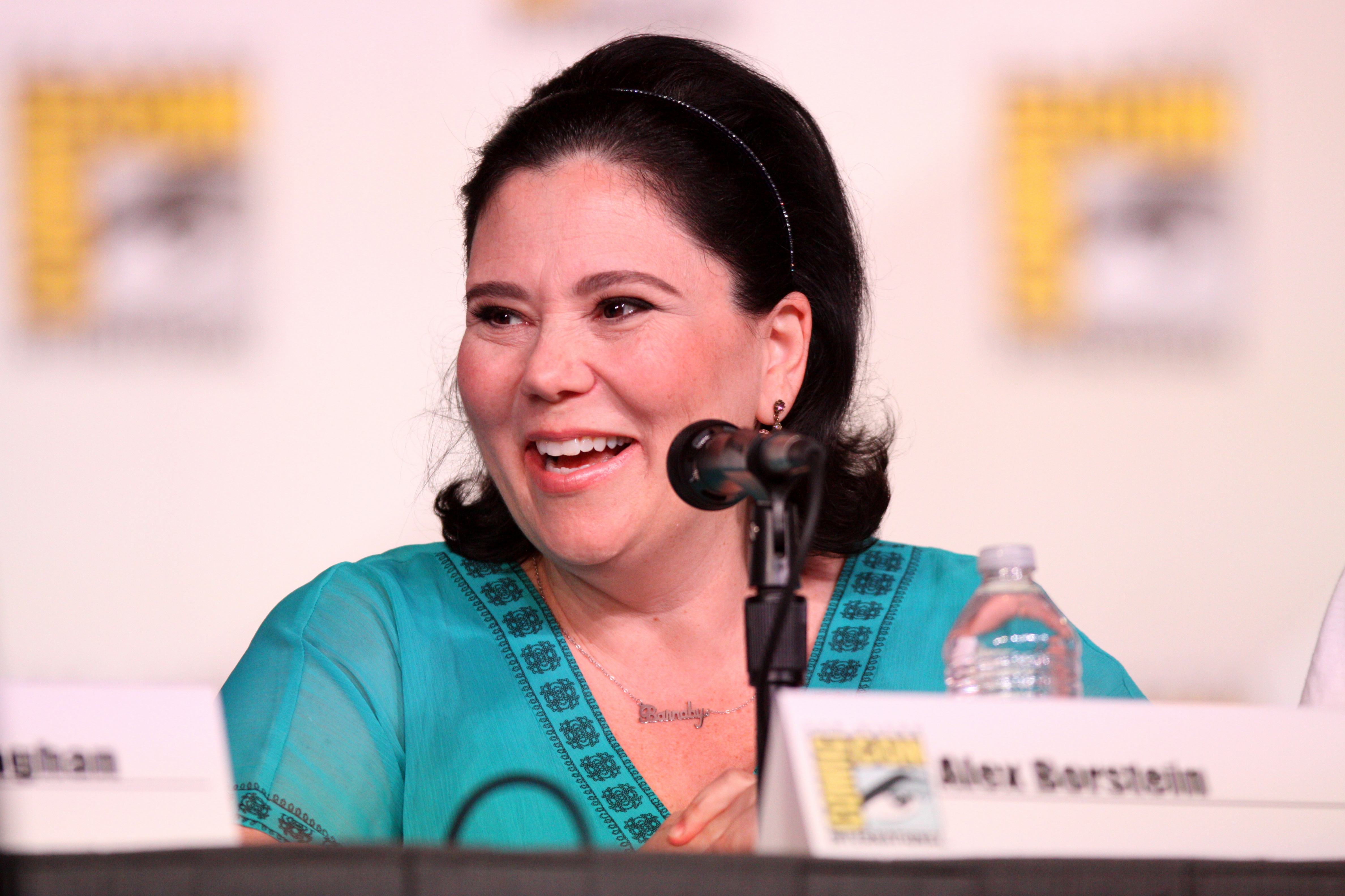 Alex Borstein speaking at the 2012 San Diego Comic-Con International in San Diego, California.